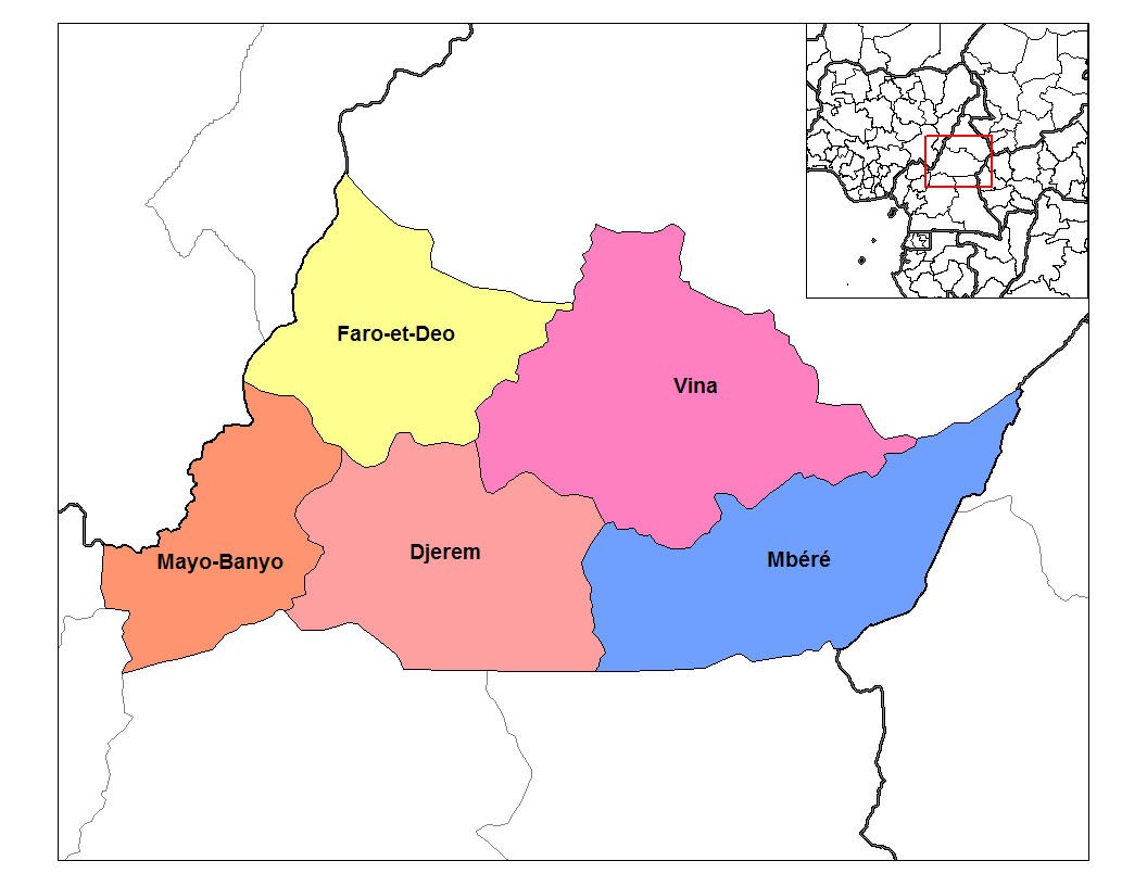 Map of the divisions of Adamawa province in Cameroon. Created by Rarelibra 19:53, 1 September 2006 (UTC) for public domain use, using MapInfo Professional v8.5 and various mapping resources.